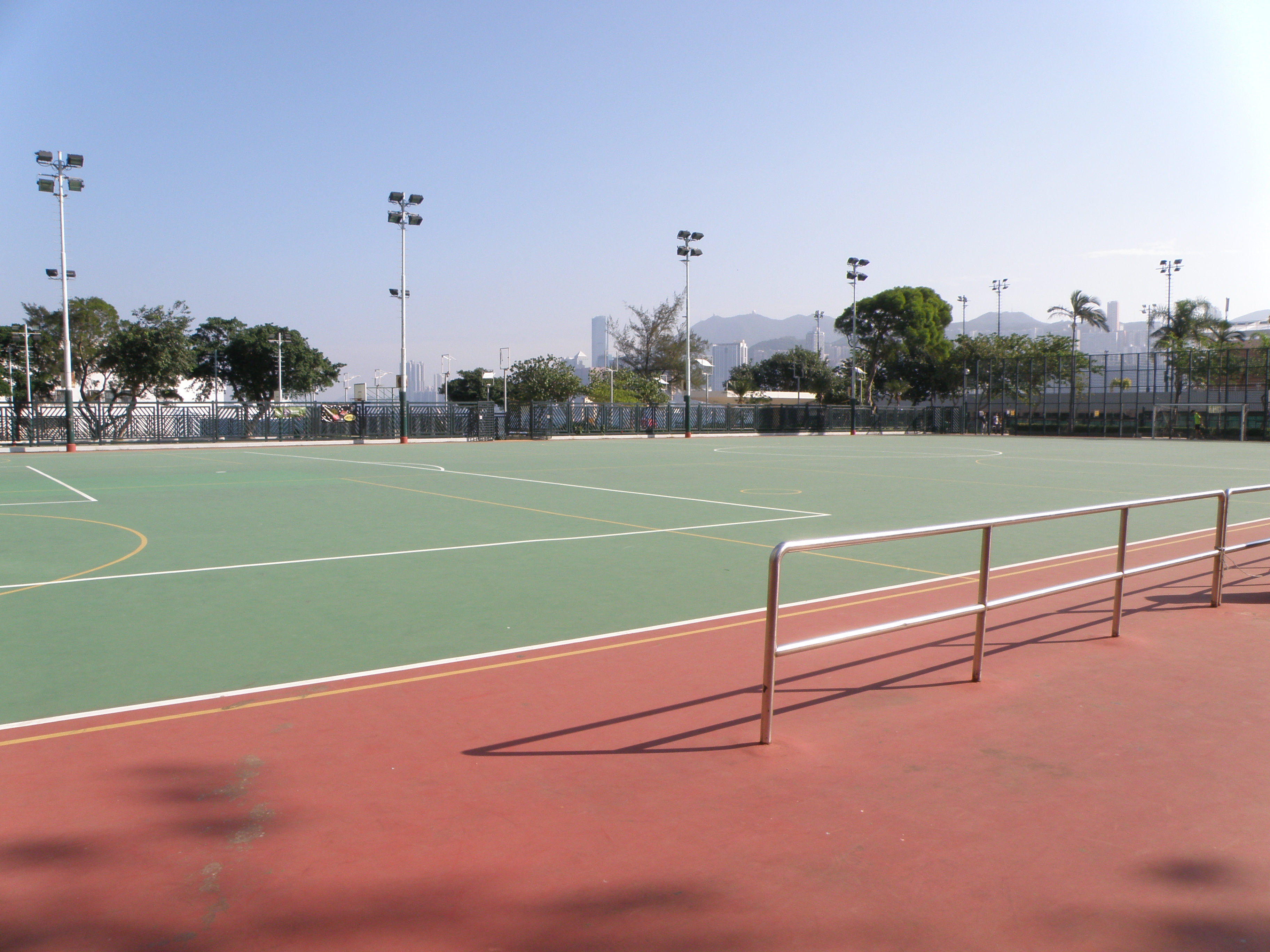 Tai Wan Shan Park in Whampoa, Hong Kong.